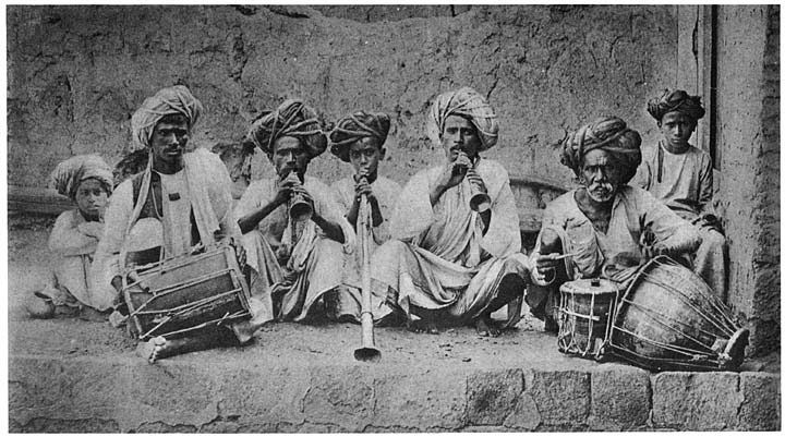 "Bahrūpia impersonating the goddess Kāli" from The Tribes and Castes of the Central Provinces of India Volume II Author: R. V. Russell